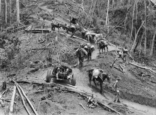 AWM Caption: PAPUA NEW GUINEA. 1942-10. MEN LEADING PACK HORSES AND MULES LOADED WITH SUPPLIES DOWN THE PRECIPITOUS CURVING TRACK FROM THE END OF THE ROAD DOWN INTO UBERI VALLEY OVER WHICH TROOPS AND SUPPLIES WERE TAKEN TO OUR FORWARD POSITIONS IN THE OWEN STANLEY RANGES. IN THE FOREGROUND MAY BE SEEN A 25-POUNDER GUN THAT IS BEING MAN-HAULED THROUGH THE VALLEY TO IMITA RIDGE.